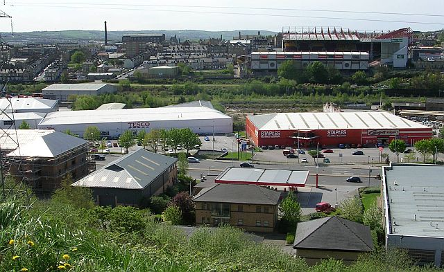 Retail Park off Valley Road